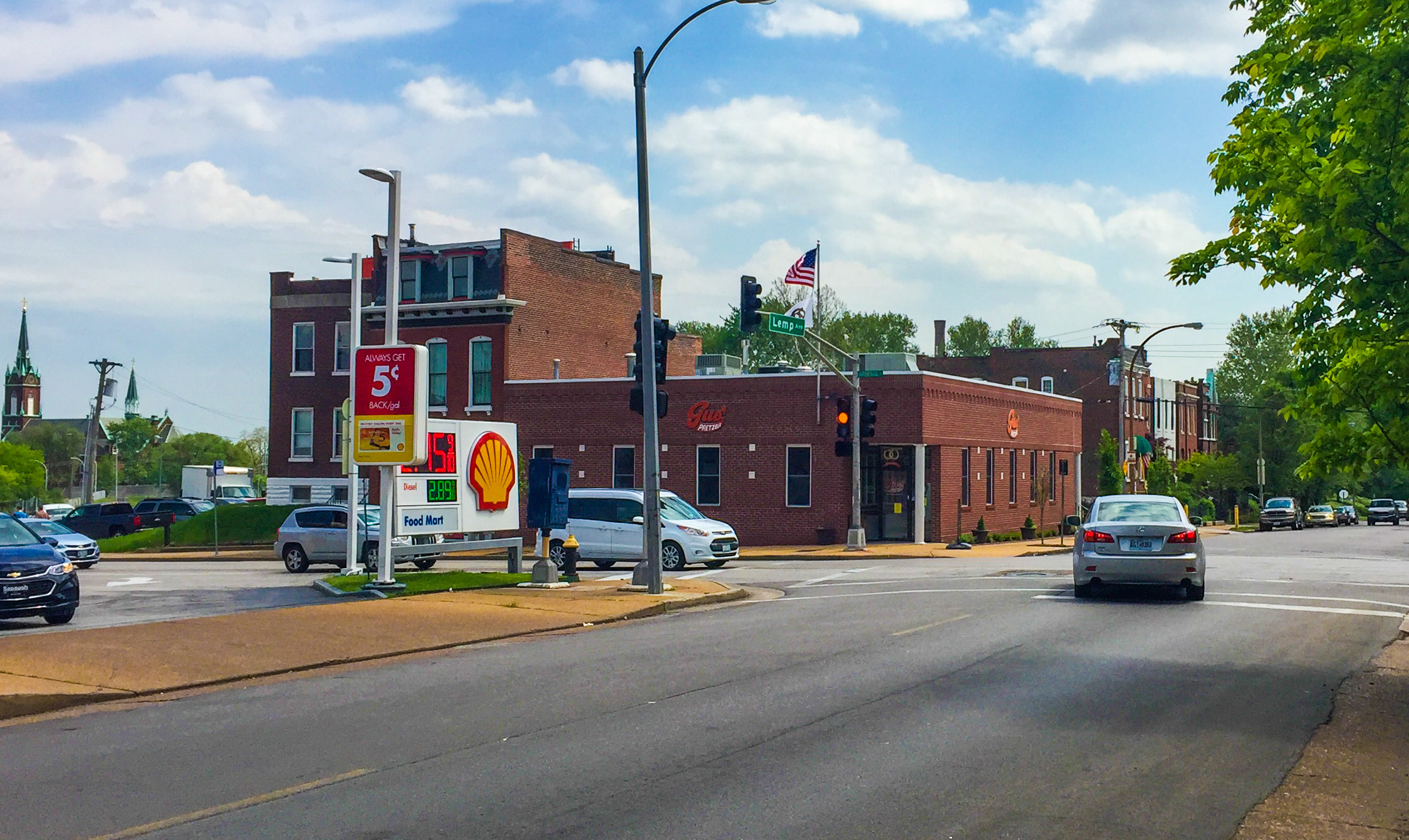 Gus' Pretzels